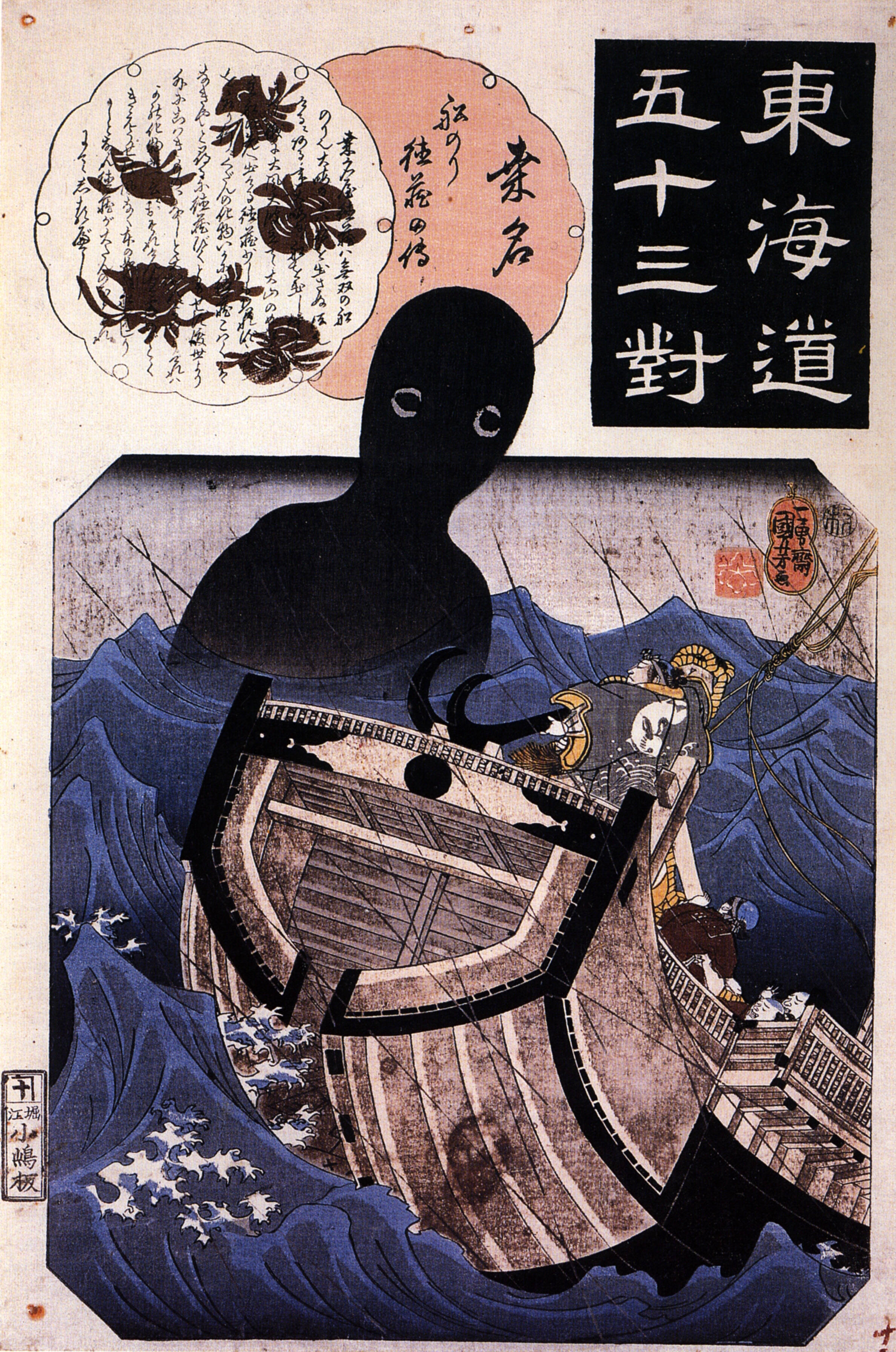 This print illustrates Umibōzu the monster of the sea who made the most violent storms on the last day of the year. Therefor sailors belive is unpropitious to leave port on this day.